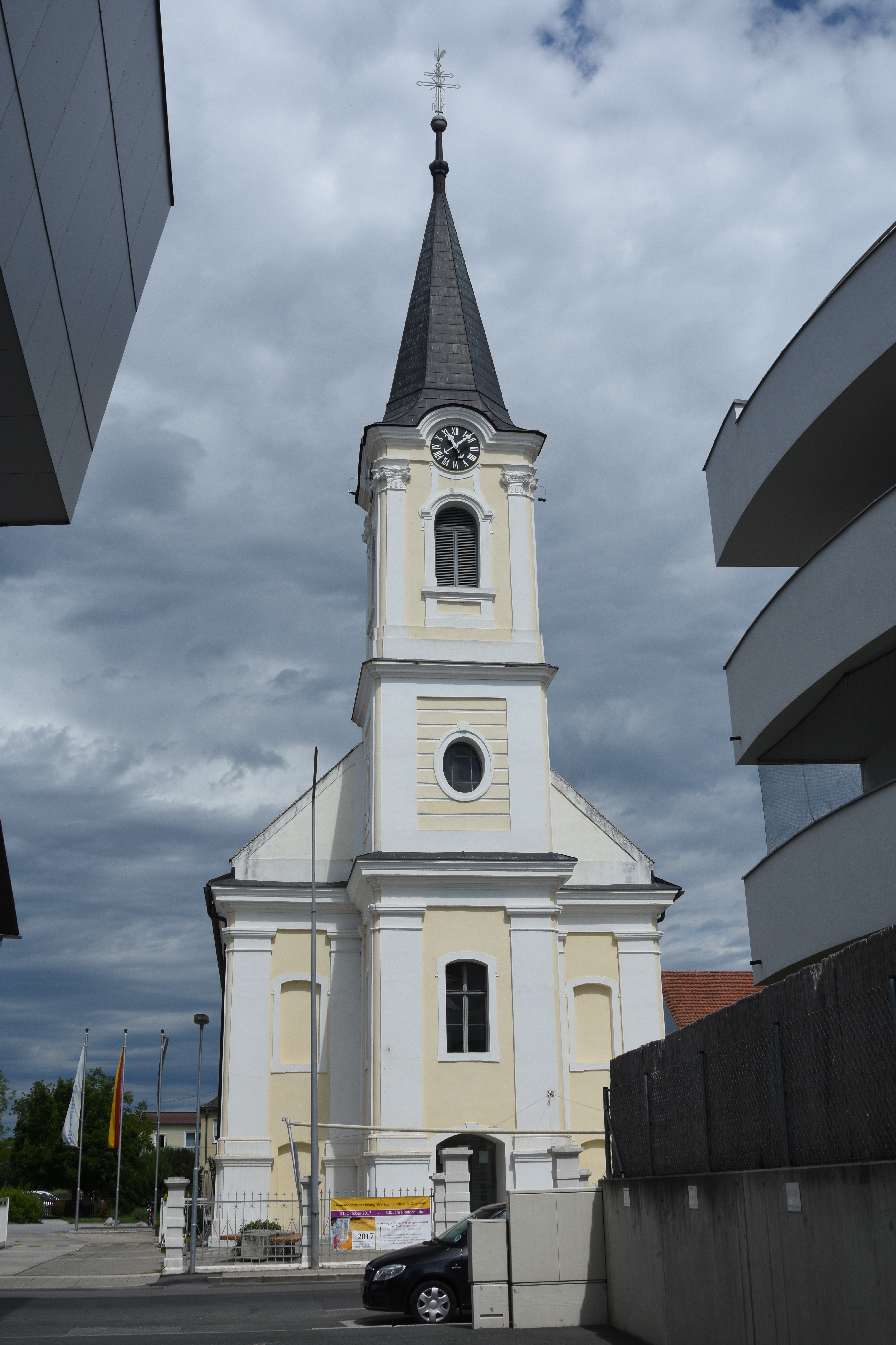 Evangelische Pfarrkirche Oberwart